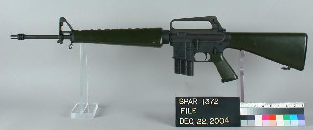 Colt Armalite AR-15 Model 01. Left Side SPAR1372 DEC. 22. 2004.